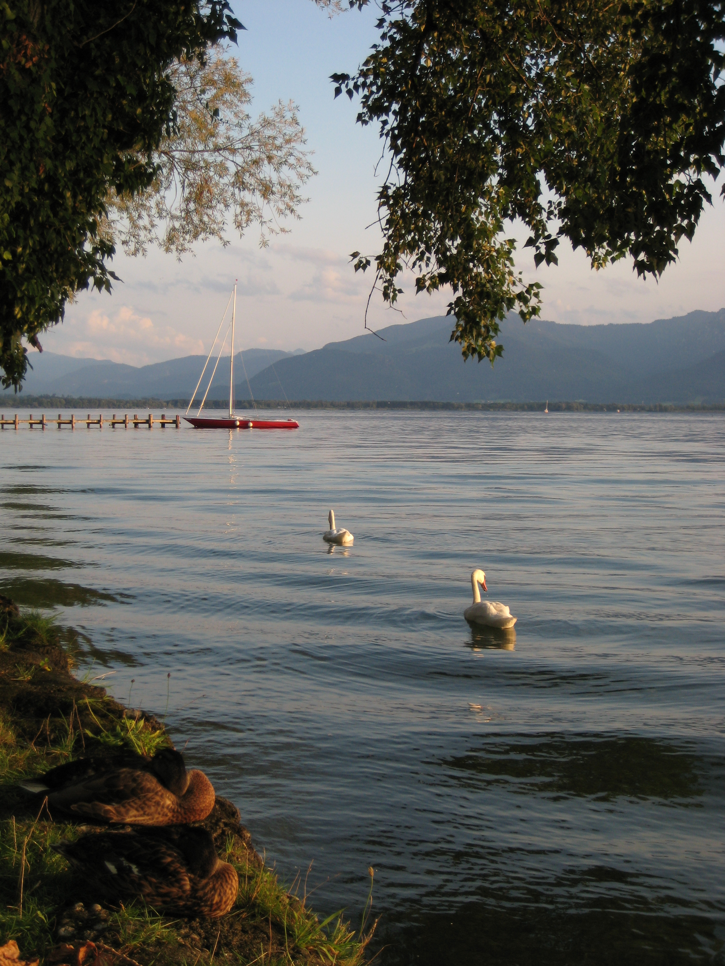 Chiemsee, Fraueninsel